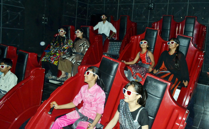 4D Motion Ride, at Lake View Park, Islamabad, Pakistan